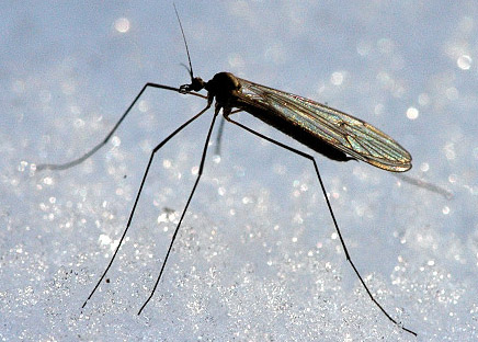 Picture taken in Commanster, Belgian High Ardennes.slightly altered from original picture (see 'other versions') Species: Trichocera hiemalis